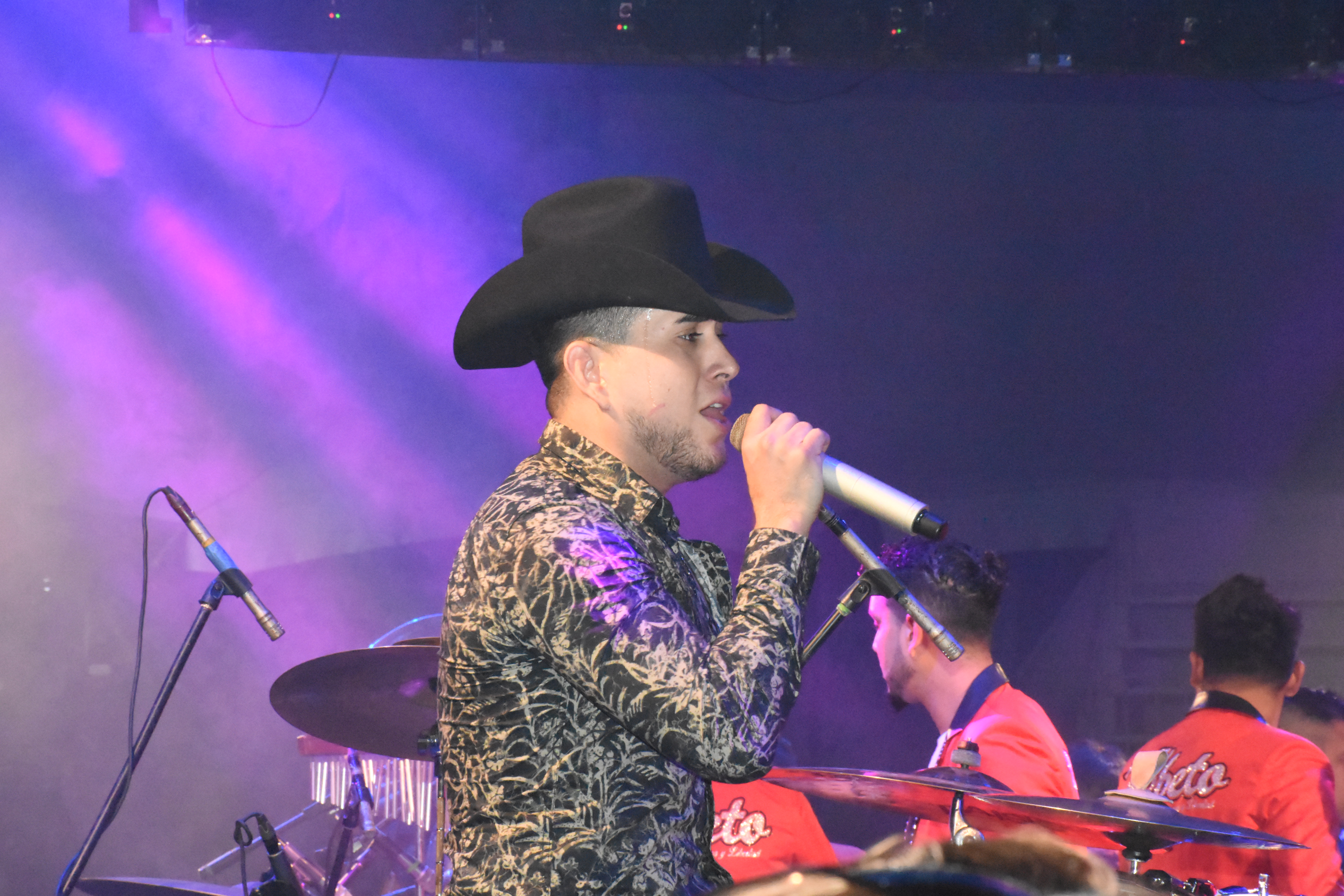 Desarrollo del concierto del Bebeto, en el palenque.